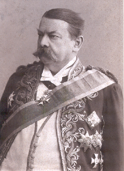 Franz von Rottenburg (1845-1907), Under-Secretary to the Minister for the Interior in the early 1890s